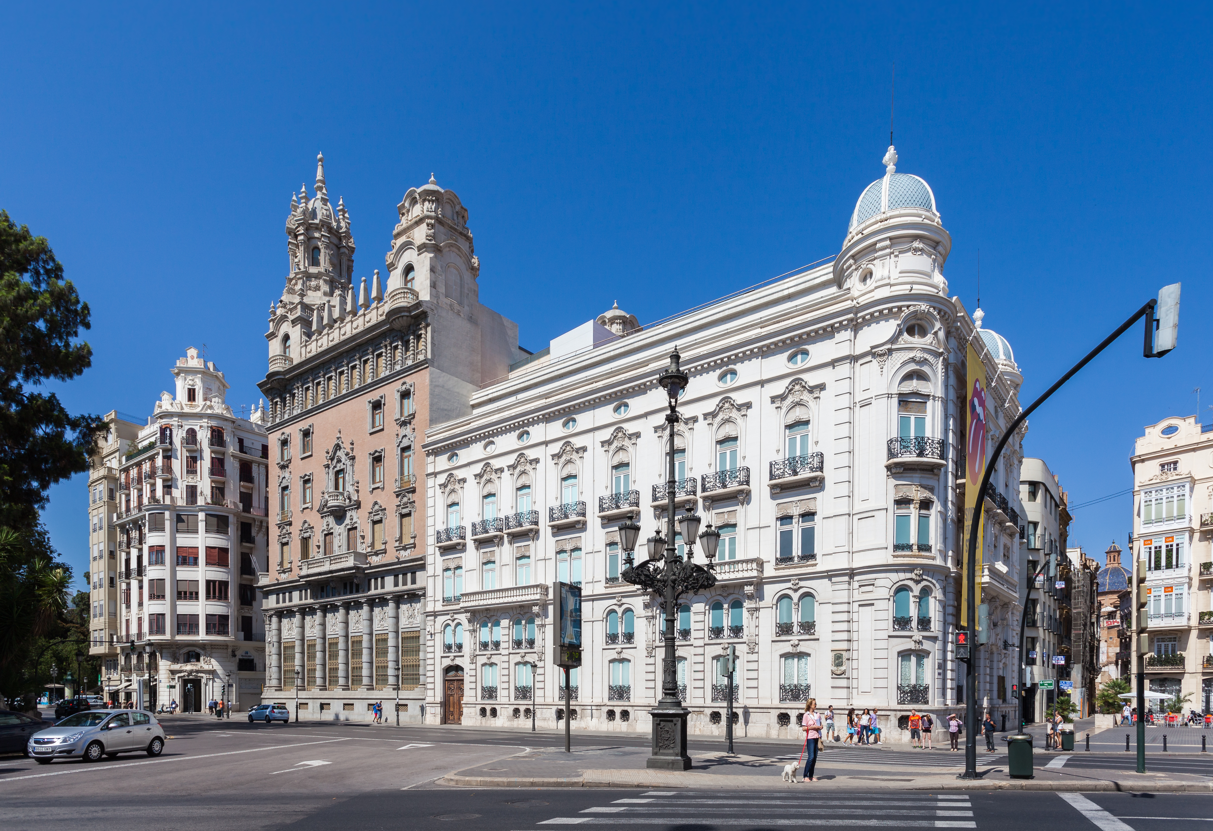 Bancaja cultural center in General Tovar street, Valencia, Spain